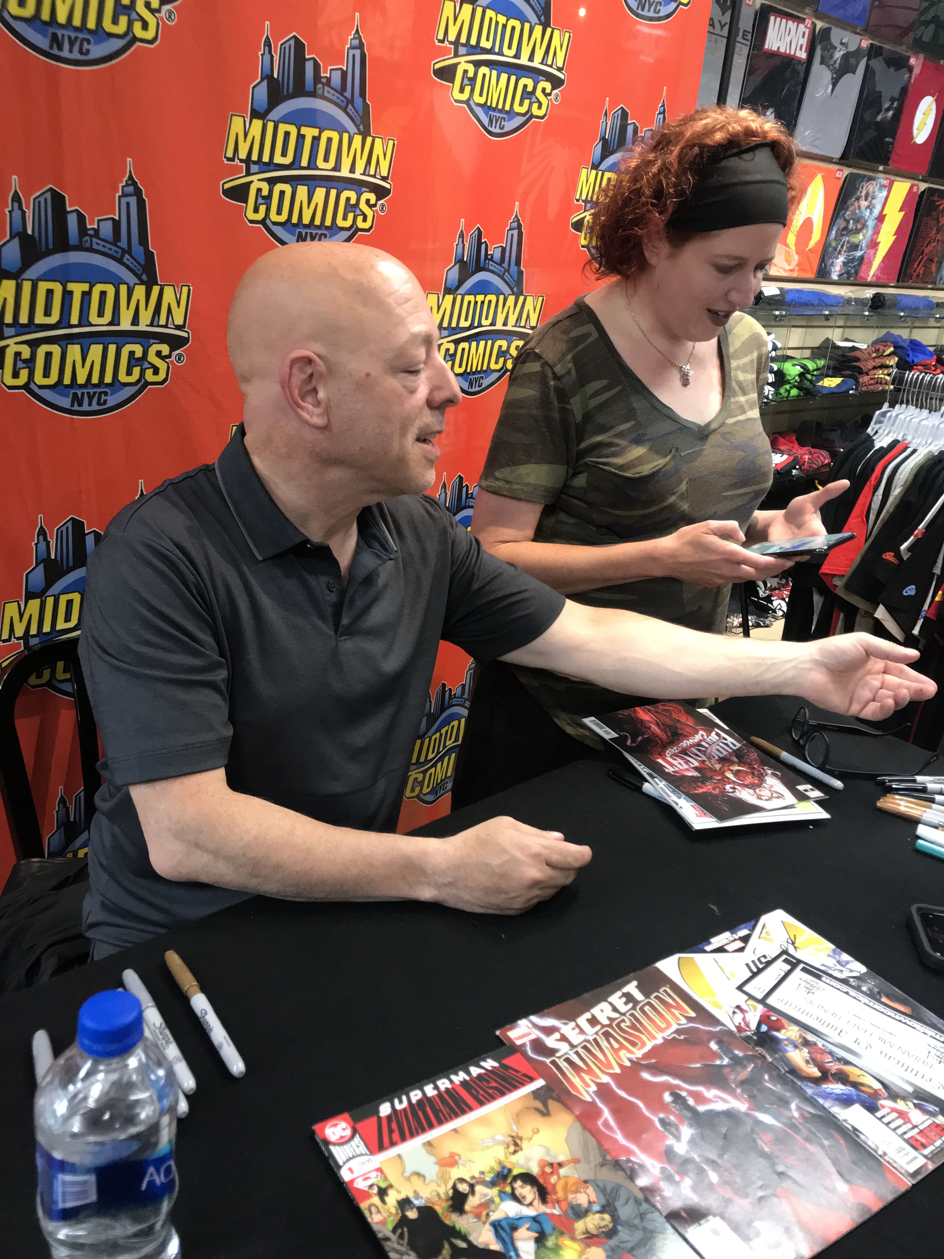 Comics writer Brian Michael Bendis (seated) and his wife Alisa at a July 24, 2019 open book signing at Midtown Comics Downtown in Lower Manhattan. This photo was created by Luigi Novi. It is not in the public domain, and use of this file outside of the licensing terms is a copyright violation.